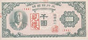 Obverse side of a South Korean note of 1000 won